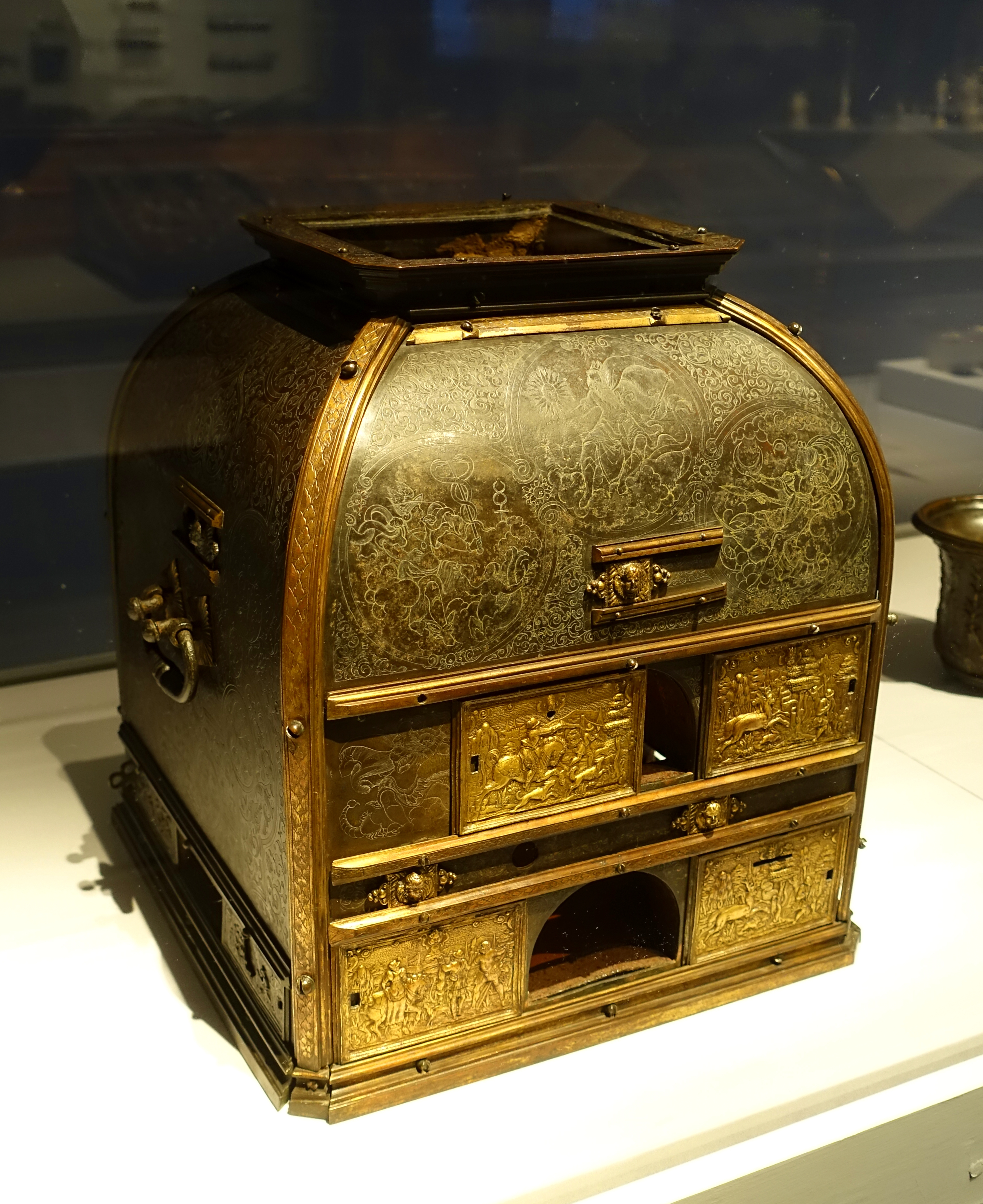 Exhibit in the Metropolitan Museum of Art - New York City, New York, USA.